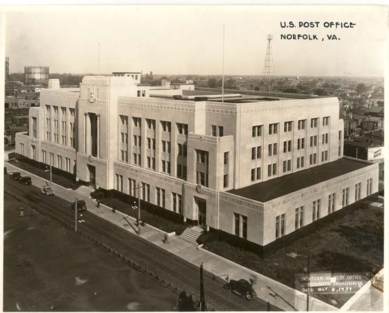 United States Post Office and Courthouse in 1934 — in the City of Norfolk, Virginia. Completed in 1932, in the Moderne Art Deco style Present day Walter E. Hoffman United States Courthouse.